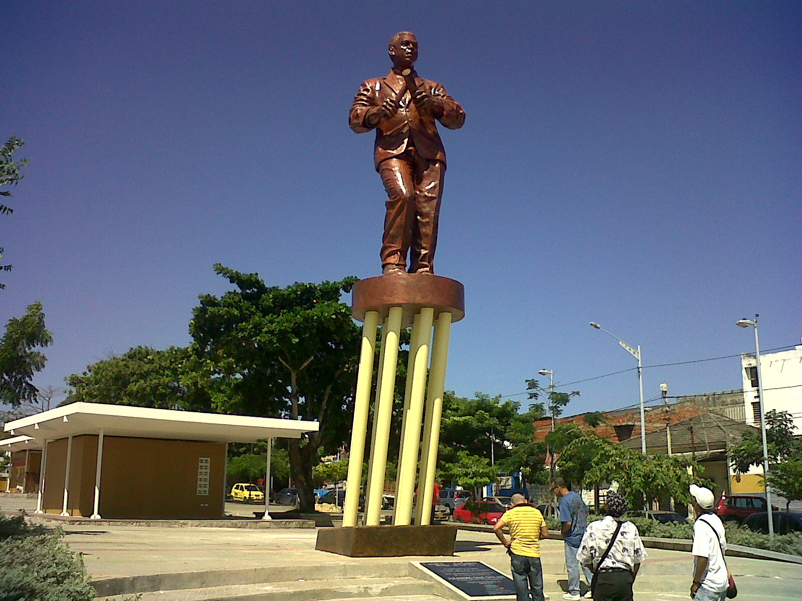 Joe Arroyo Statue on Barranquilla